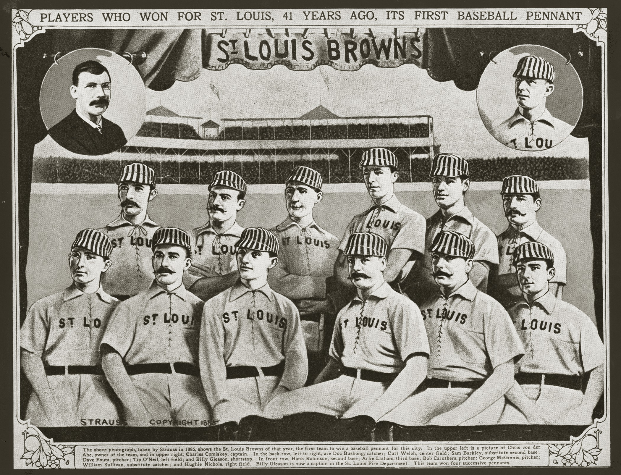 Title: 1885 St. Louis Brown Stockings with Sportsman's Park in background. Chris Von der Ahe and Charles Comiskey featured.